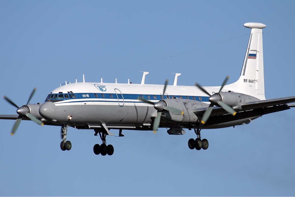 Russian Air Force Ilyushin Il-22M-11 Zebra